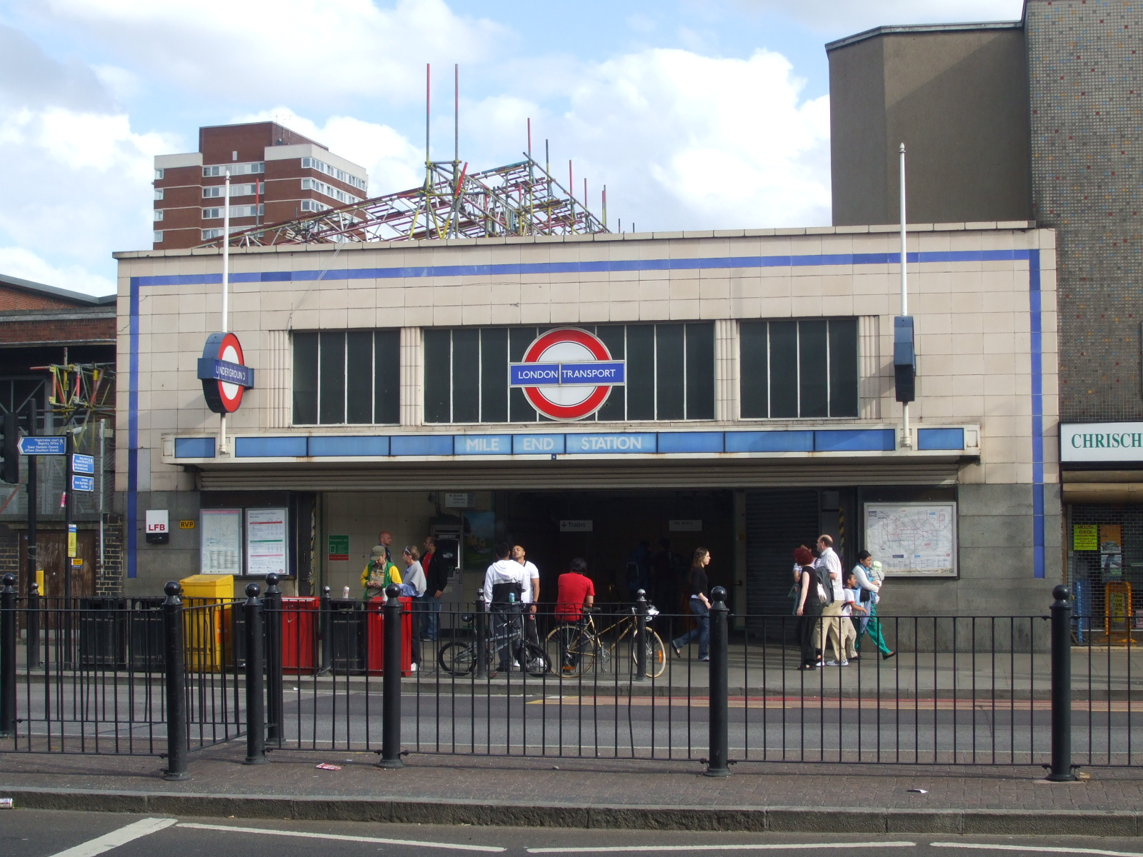 Mile End tube station entrance on the A11 Mile End Road